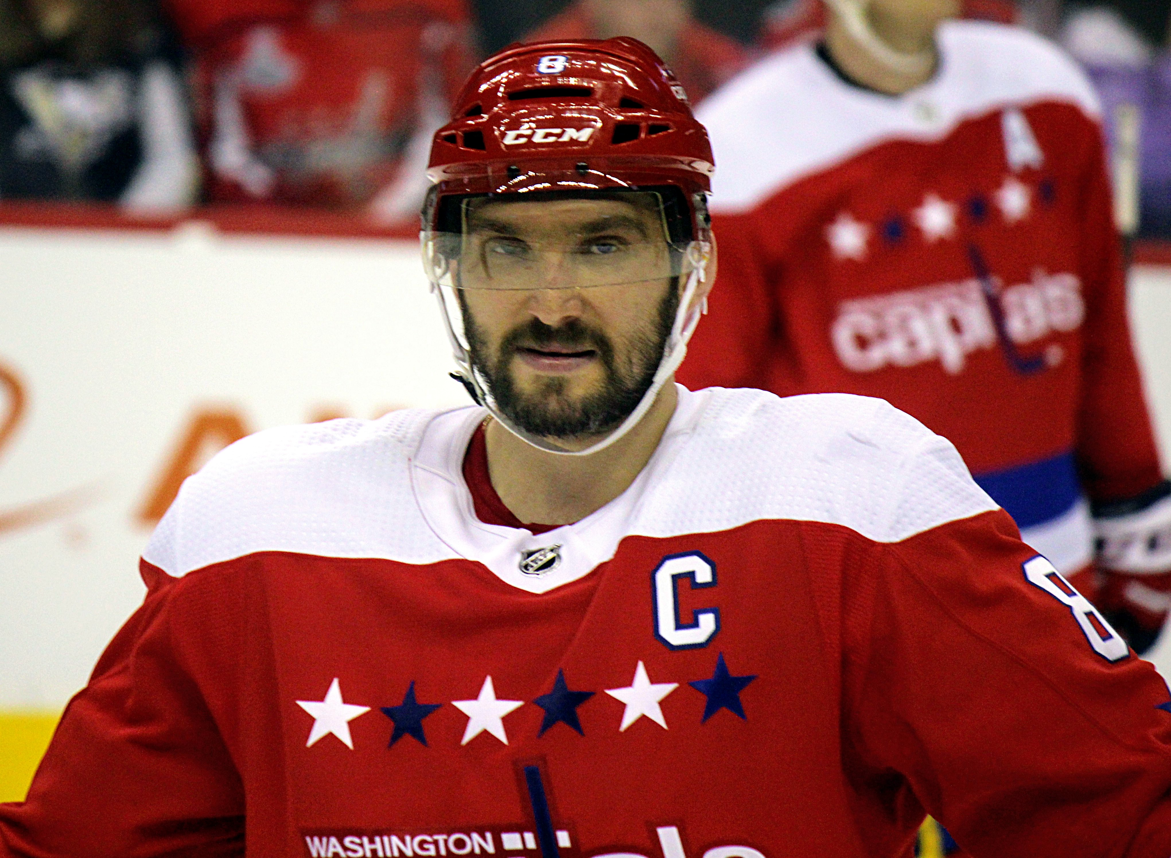 Washington Capitals captain Alex Ovechkin during a game against the Pittsburgh Penguins, December 19, 2018, at Capital One Arena in Washington, D.C.